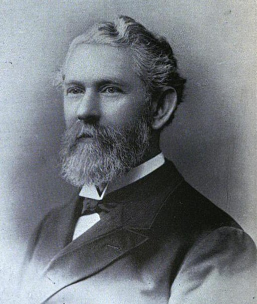 Photograph of J. A. Lippencott, the fourth Chancellor of the University of Kansas. From Google Books archive: Title Quarter-centennial history of the University of Kansas, 1866-1891 Authors Wilson Sterling, James Burrill Angell, Carrie M. Watson, Arthur Graves Canfield, D. H. Robinson Editor Wilson Sterling Publisher G.W. Crane & co., 1891 Original from the University of Michigan Digitized Jun 26, 2007 Length 198 pages